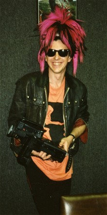 Tony James of Sigue Sigue Sputnik - Live 105 (radio) studio, San Francisco, California, USA